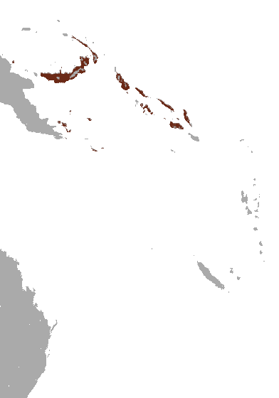 Island Tube-nosed Fruit Bat (Nyctimene major) range